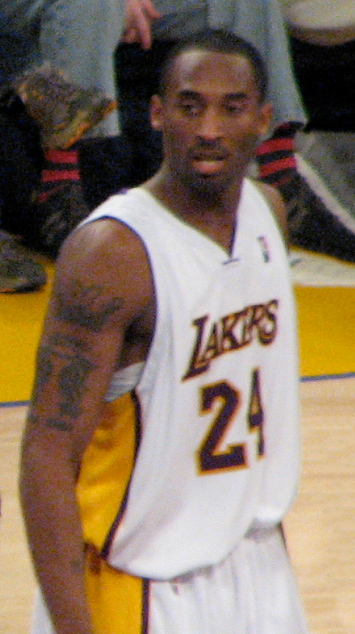 Photo of the Los Angeles Lakers Kobe Bryant..